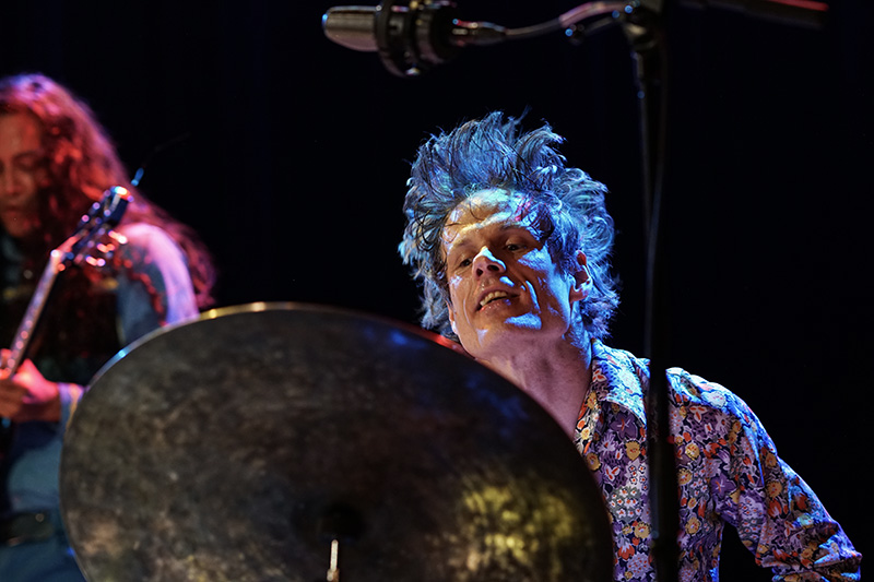 Greg Saunier at Aarhus Festival, Denmark 2017